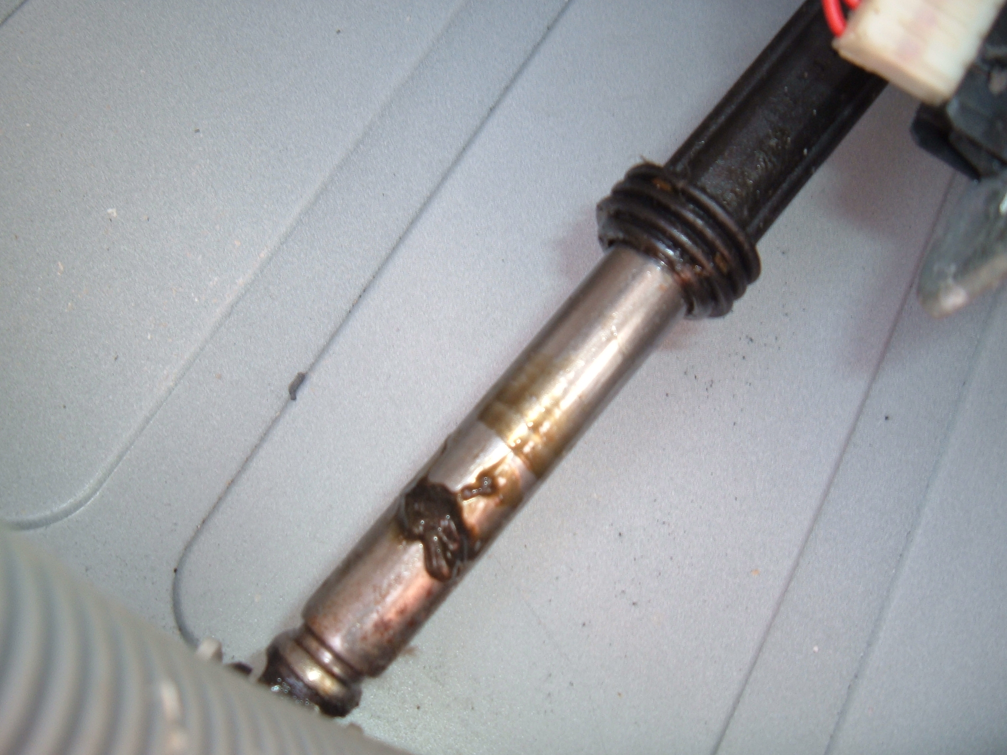 I am the author.